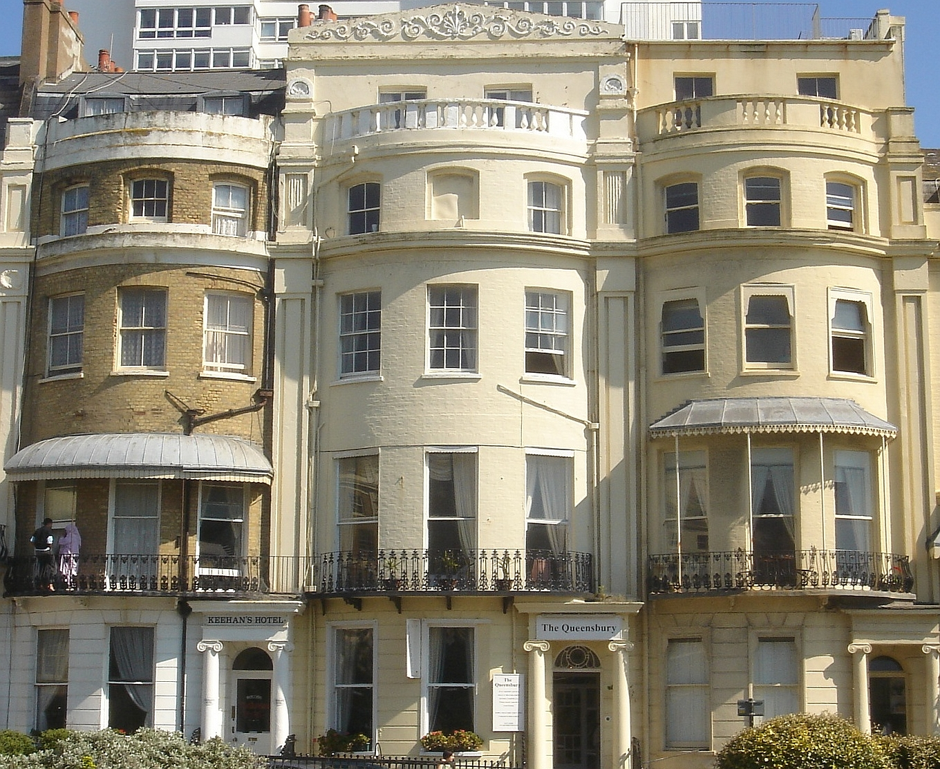 57–59 Regency Square, Brighton, City of Brighton and Hove, England. The east part of the Regency Square development built in Brighton around 1818. Listed at Grade II* by English Heritage (IoE Code 481136)